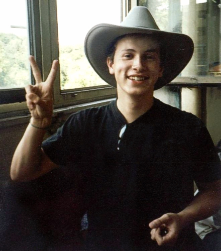 Franz Dinda (*1983), upcoming German actor, at the stage of the German teen tv series "Fabrixx"